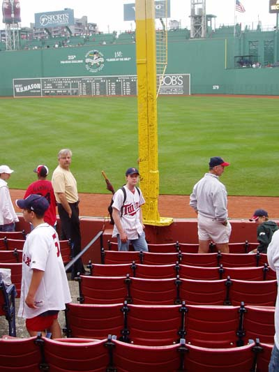 Pesky's Pole, in right field of Fenway Park, on June 22, 2004. The Red Sox defeated the Minnesota Twins 9-2. 19:19, 4 February 2005 . . PSzalapski . . 400×533 (53,002 bytes)